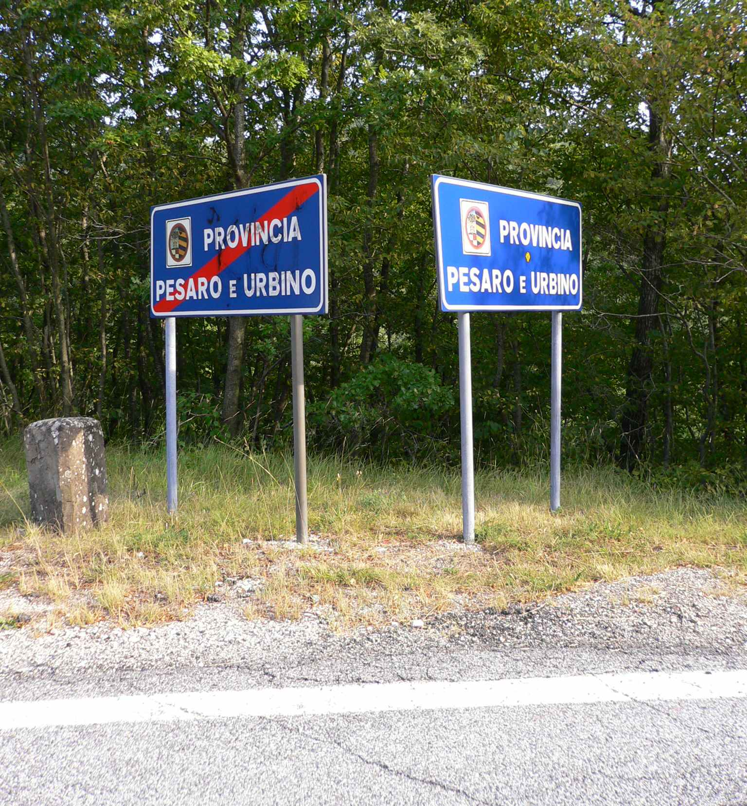 region line